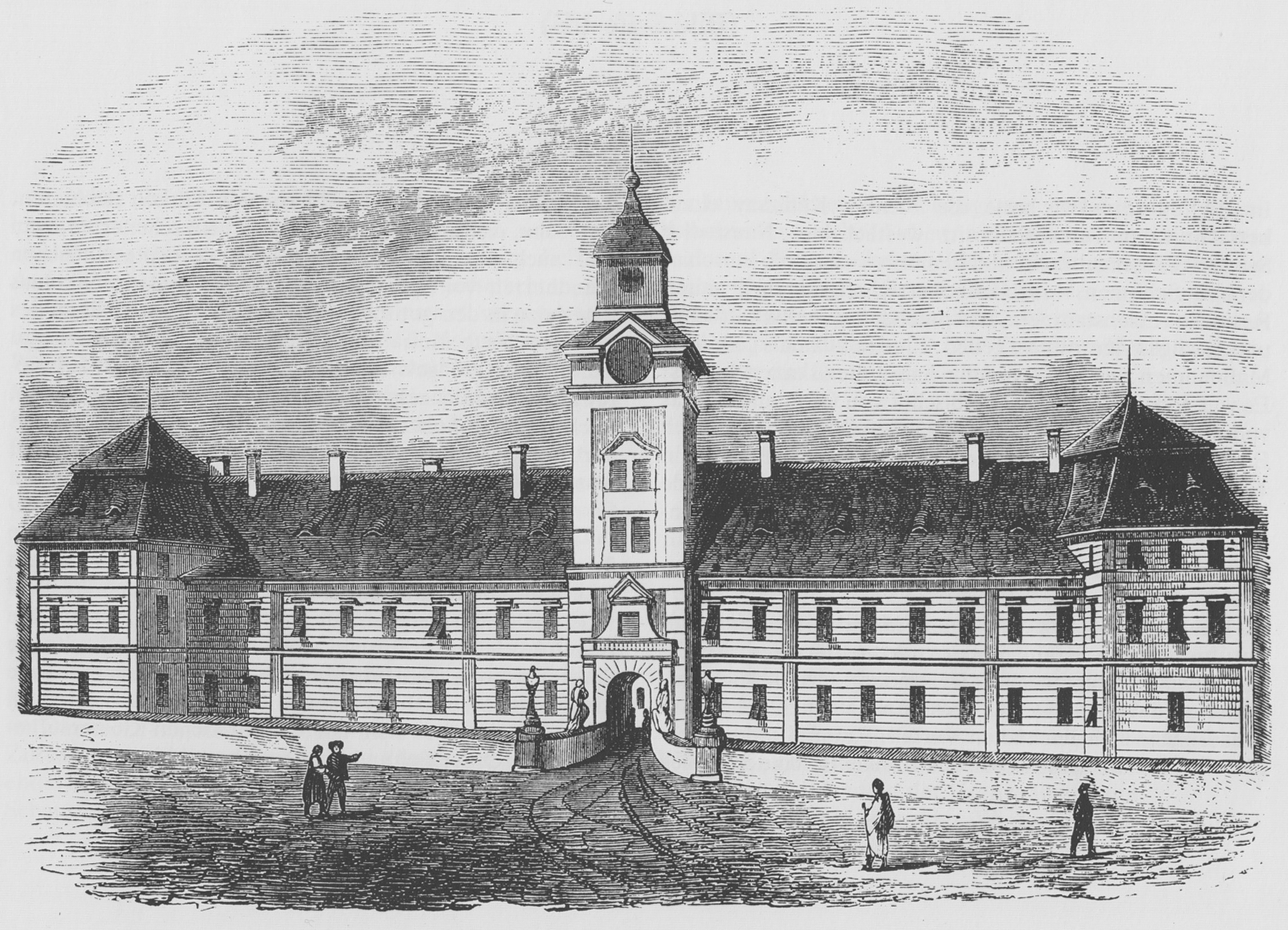 Rechnitz castle. In: Vasárnapi Ujság, 1859